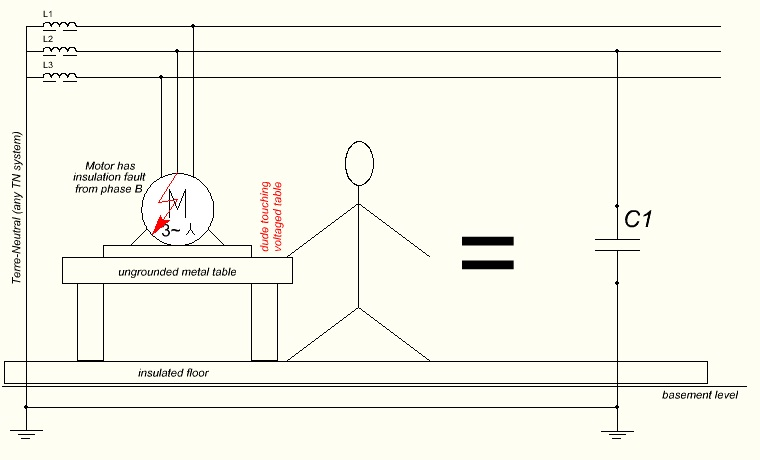 When I started to work with electricity in my childhood, I was really surprised, why I become electrocuted lot of times touching only one wire. Where is the closed circuit? -The problem is in grounded neutral wire in widespread TN systems. When human touching one hot wire, he forms one plate of capacitor and ground forms second plate of capacitor.